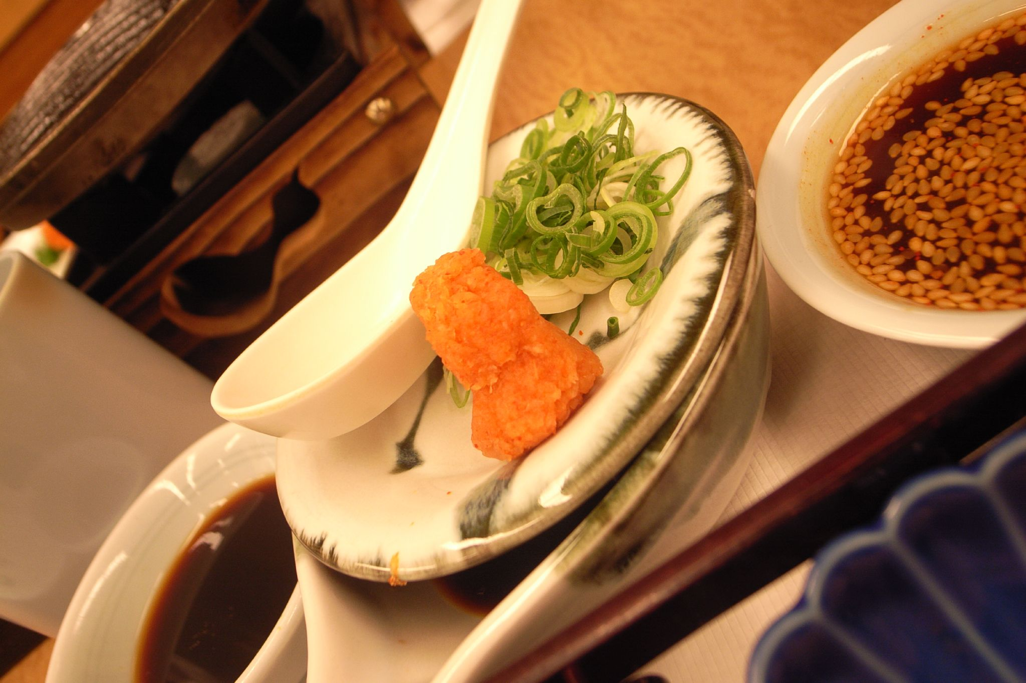 Momiji oroshi as Grated white radish with red pepper